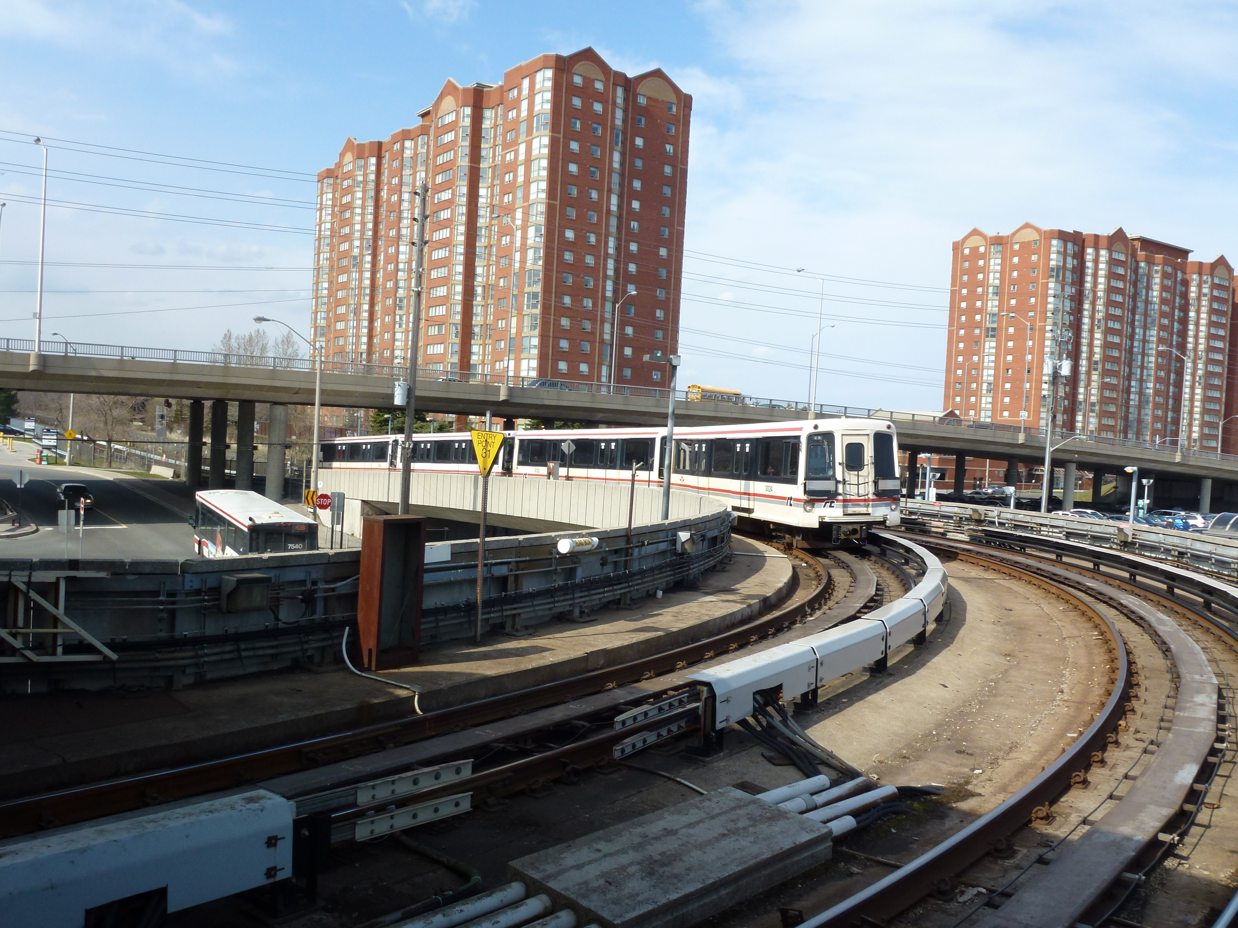 Parts of panoramas of intersections where there will be Eglinton Crosstown LRT stations, GPS embedded, taken 2013 04 25 (316).JPG